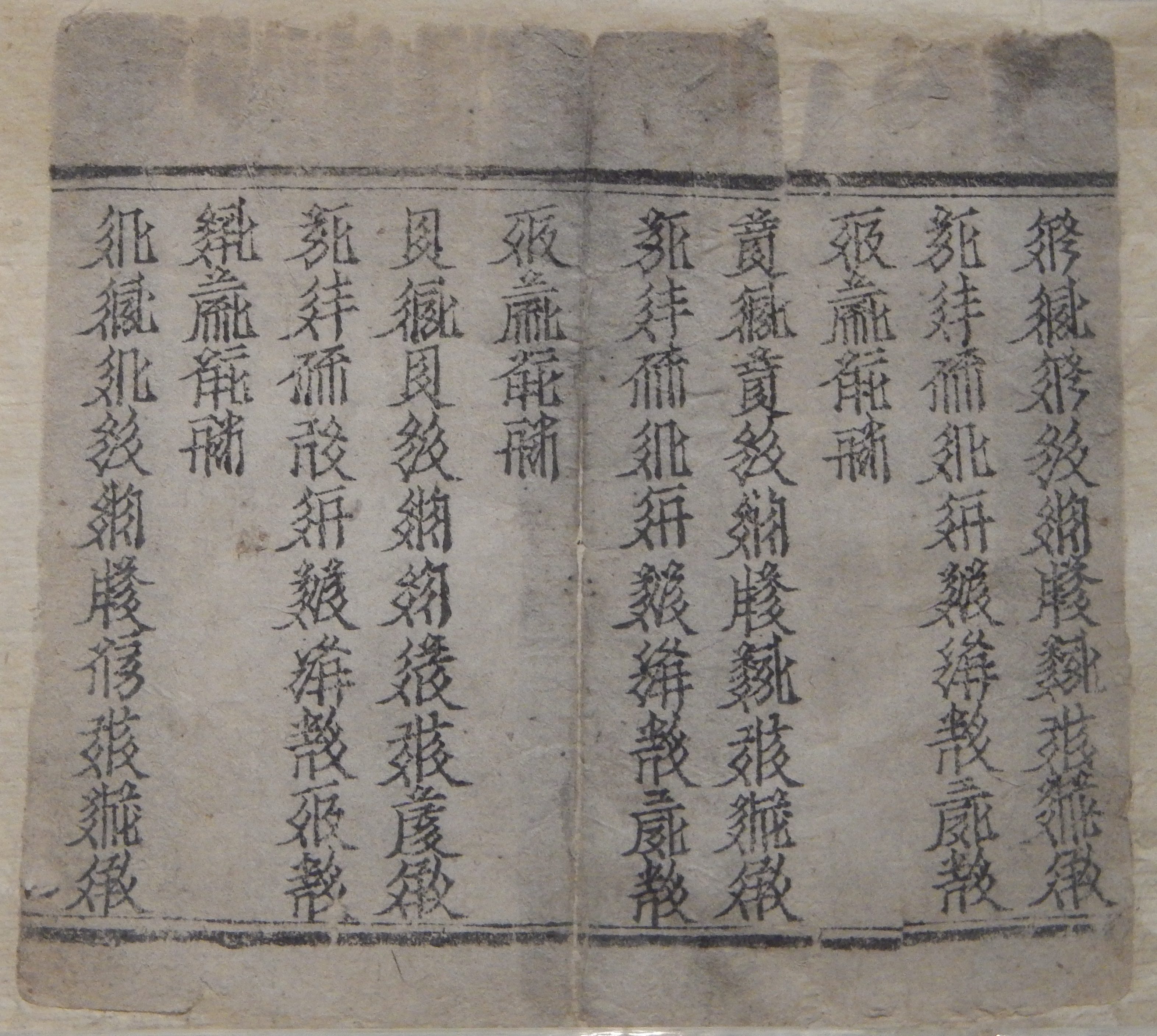 Tangut printed Buddhist text discovered in in 2005 at the Shanzuigou Caves, Helan County, Ningxia. Chinese translated title of the text: Jīngāng bōrě jīngjí 金剛般若經集. Catalogue no. K2:135.